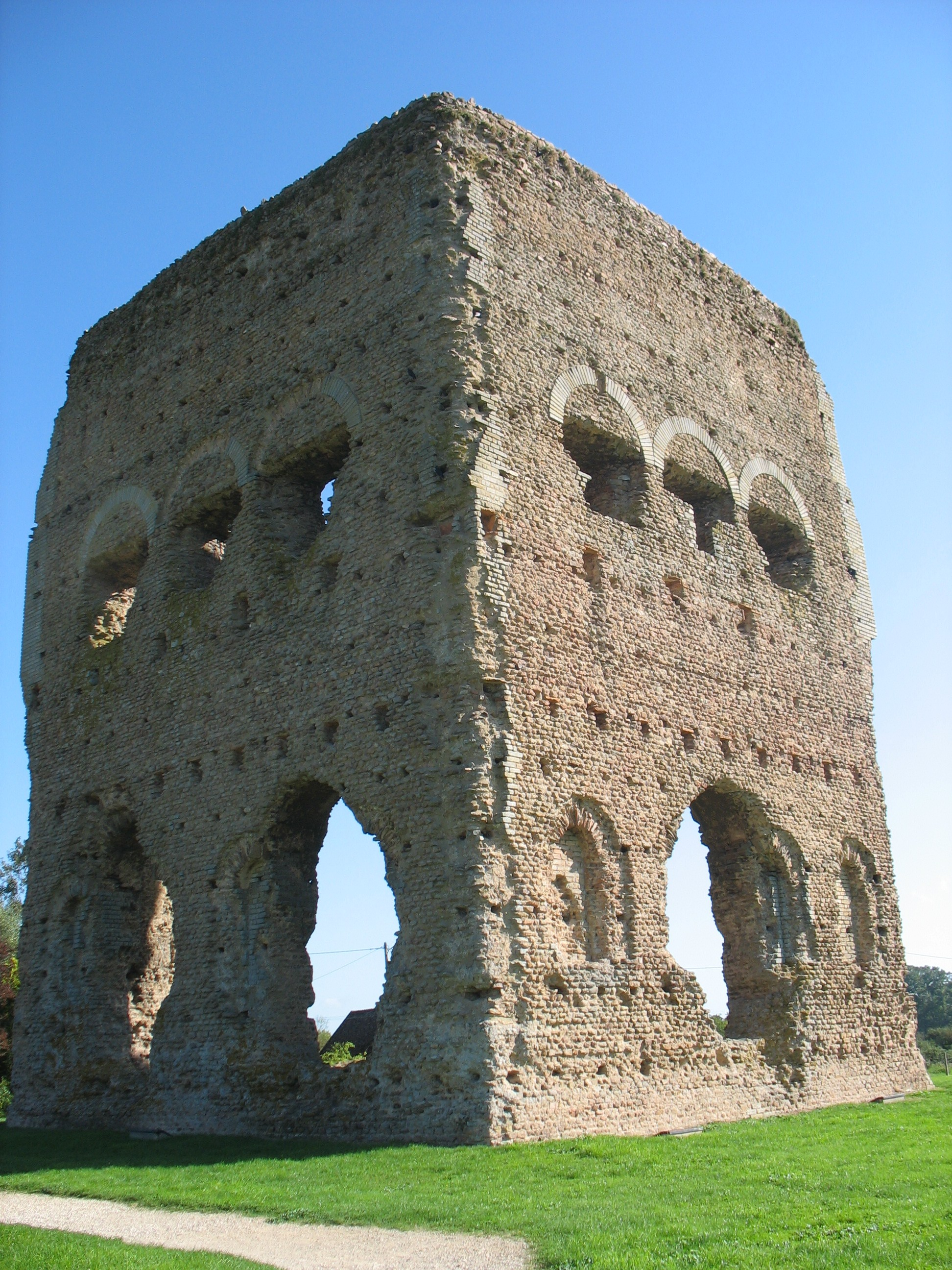 The temple so-called Janus in Autun.